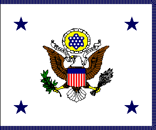 Personal Flag of US Assistant Secretaries of the Army